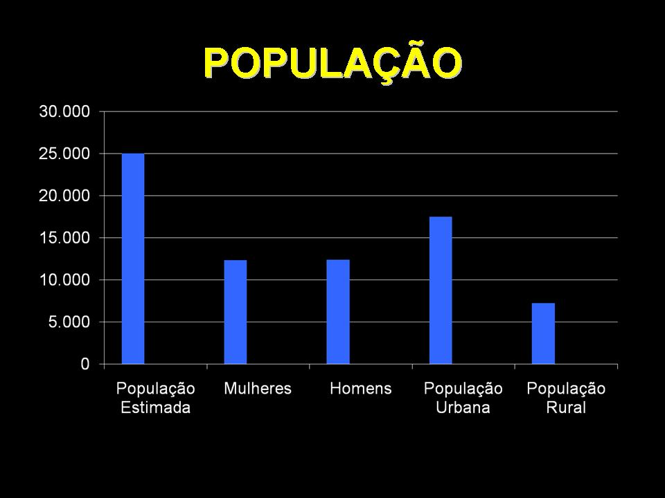 City of Murici